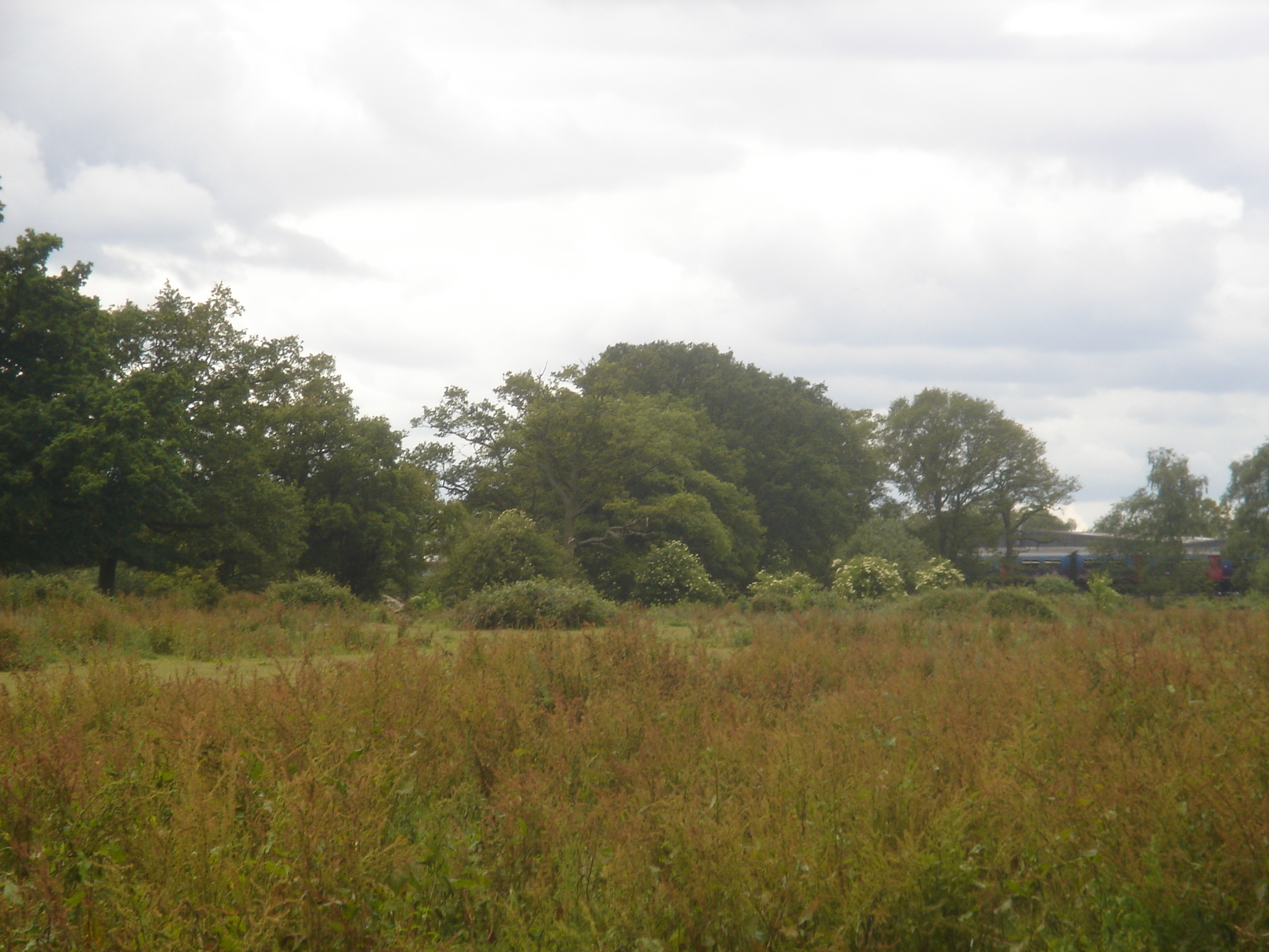 Rough pastures south of Radford Road/Tinsley Green Lane, Tinsley Green, Crawley, West Sussex, England. East of the Brighton Main Line, on which a train is running in the background. This is part of the "Crawley North East Sector", for which a planning application for a new residential neighbourhood was submitted in 1998. Additional note (2014): this field is slightly outside the "Revised Application Site Boundary" which appears on the latest site masterplan. The north–south footpath on which I am standing forms part of the boundary, which then continues in a southwesterly direction along a hedge line a few yards off camera to the left. Immediately inside the boundary will be a road fronted with housing and a "neighbourhood square". The development will be called Forge Wood.